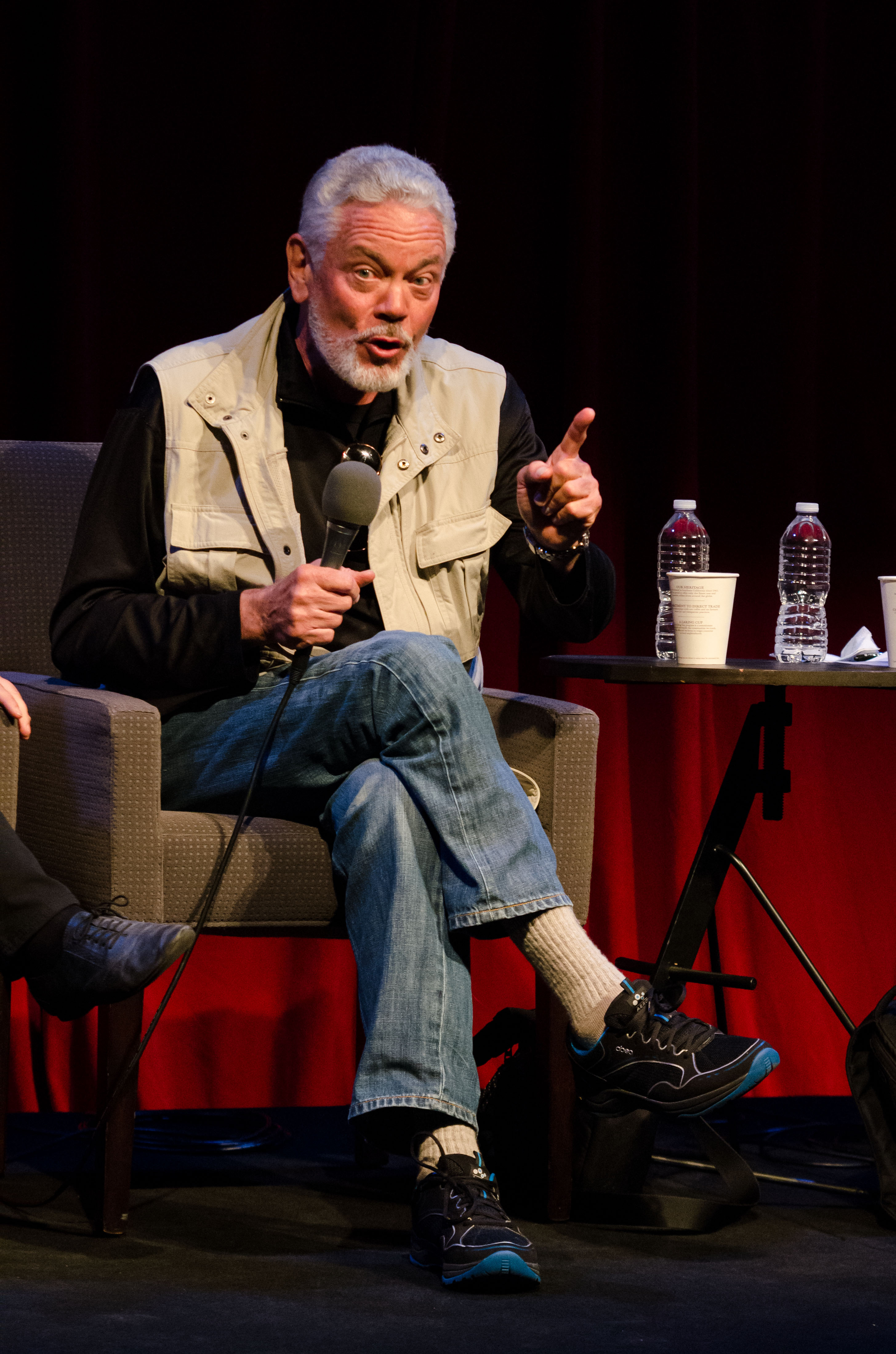 Frank Snepp discusses the trouble he faced with the government when he attempted to publish a book regarding his last days in Vietnam. (Benjamin Dunn/Neon Tommy)